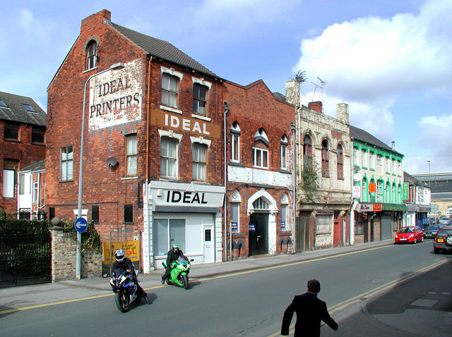 Midland Street, Hull Looking northwest from Owbridge Court flats. No.14 Midland Street is home to Ideal Printers and the Ideal School of Motoring & Motorcycle Training. I believe No.12 to the right of it is now a warehouse, possibly belonging to the printers. To the right of these at No.10 is the ornate but crumbling Albert Hall which has ground floor capitals depicting minstrels and the remnants of a sign on the front saying "The Fair and Square Club". The Albert Hall is the only surviving purpose-built music hall in Hull, built in 1874 by W Fussey to designs by W Thompson. It was bought and probably remodelled by Worthington's brewery in 1892 when it became the Albert Hall Inn. It closed as a pub 1965 and the building is now well and truly derelict. There was a cold wind blowing when I took this. Either that or the bloke in the foreground needs a better fitting suit.